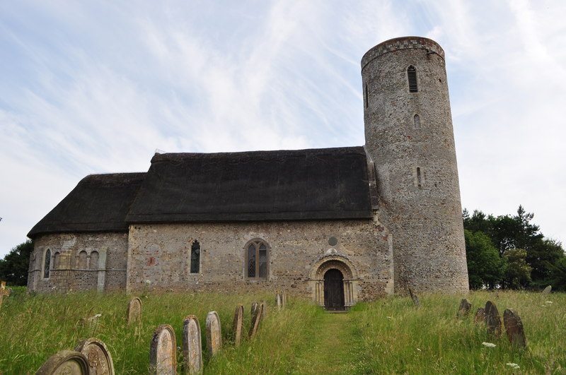 Hales St Margaret, near to Hales, Norfolk, Great Britain. A view of the Norman Church from the road. A nice normal arch tells you straight away this church is special.